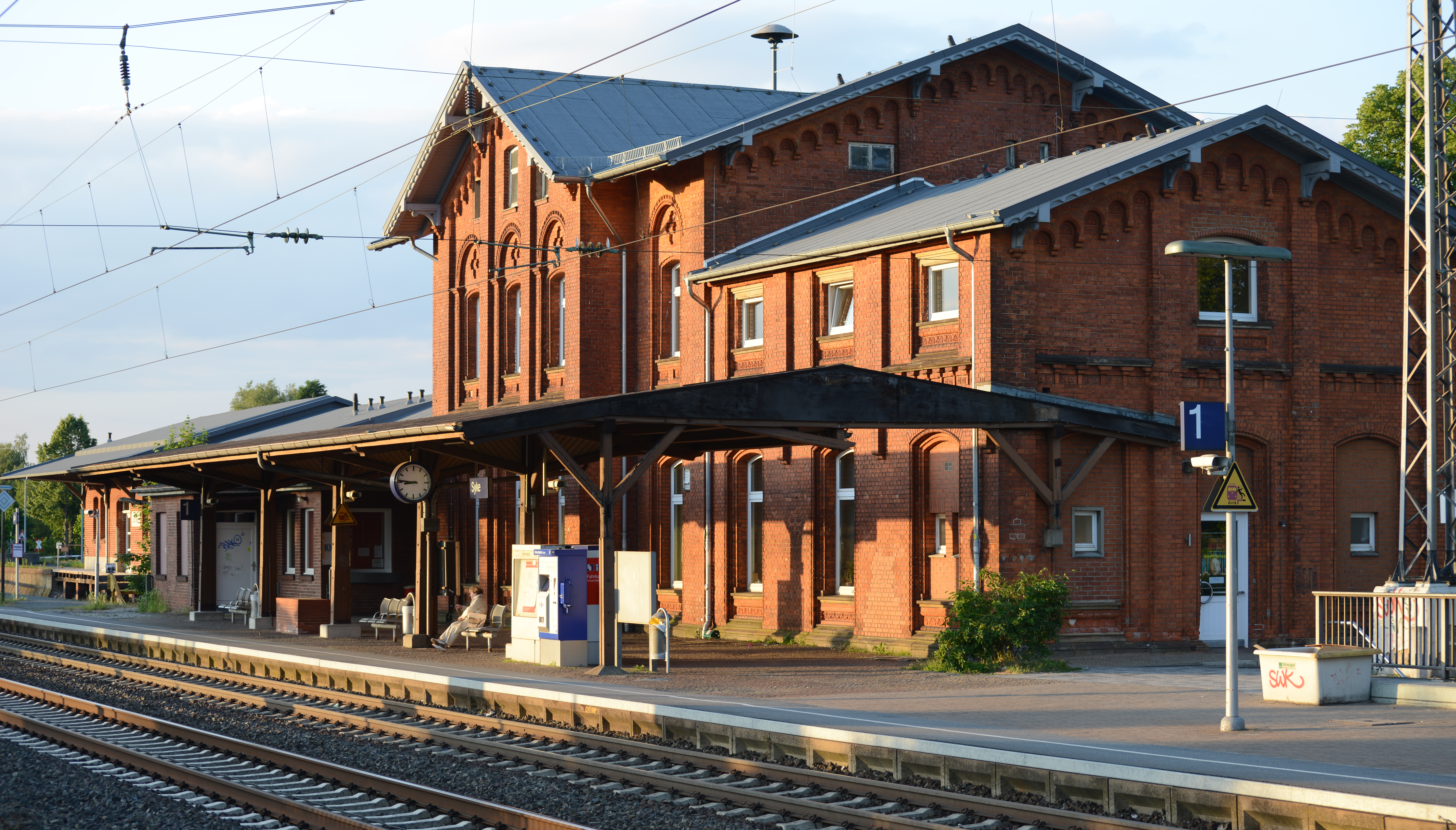 Cultural Heritage Monument in Syke, Train Station